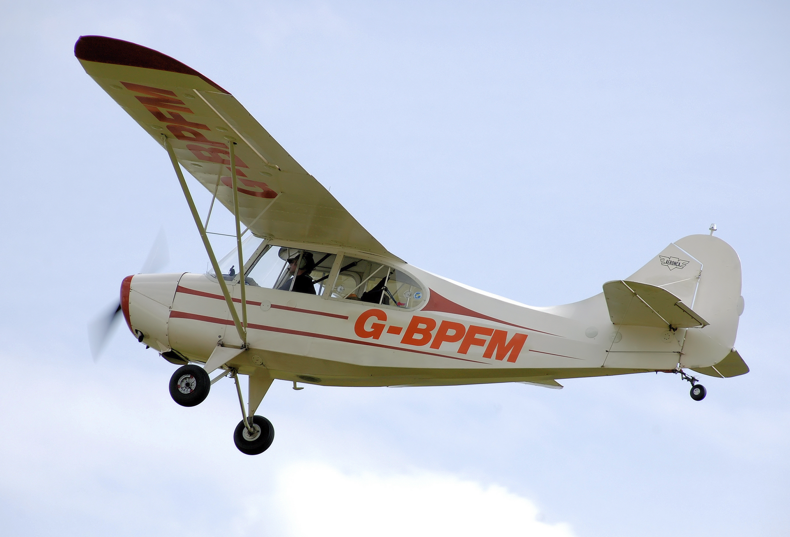 Aeronca 7AC Champion (G-BPFM), built 1946, taking off at the Great Vintage Flying Weekend (a gathering of old light aircraft) at Kemble Airport, Gloucestershire, England. Photographed by Adrian Pingstone in May 2009 and released to the public domain.